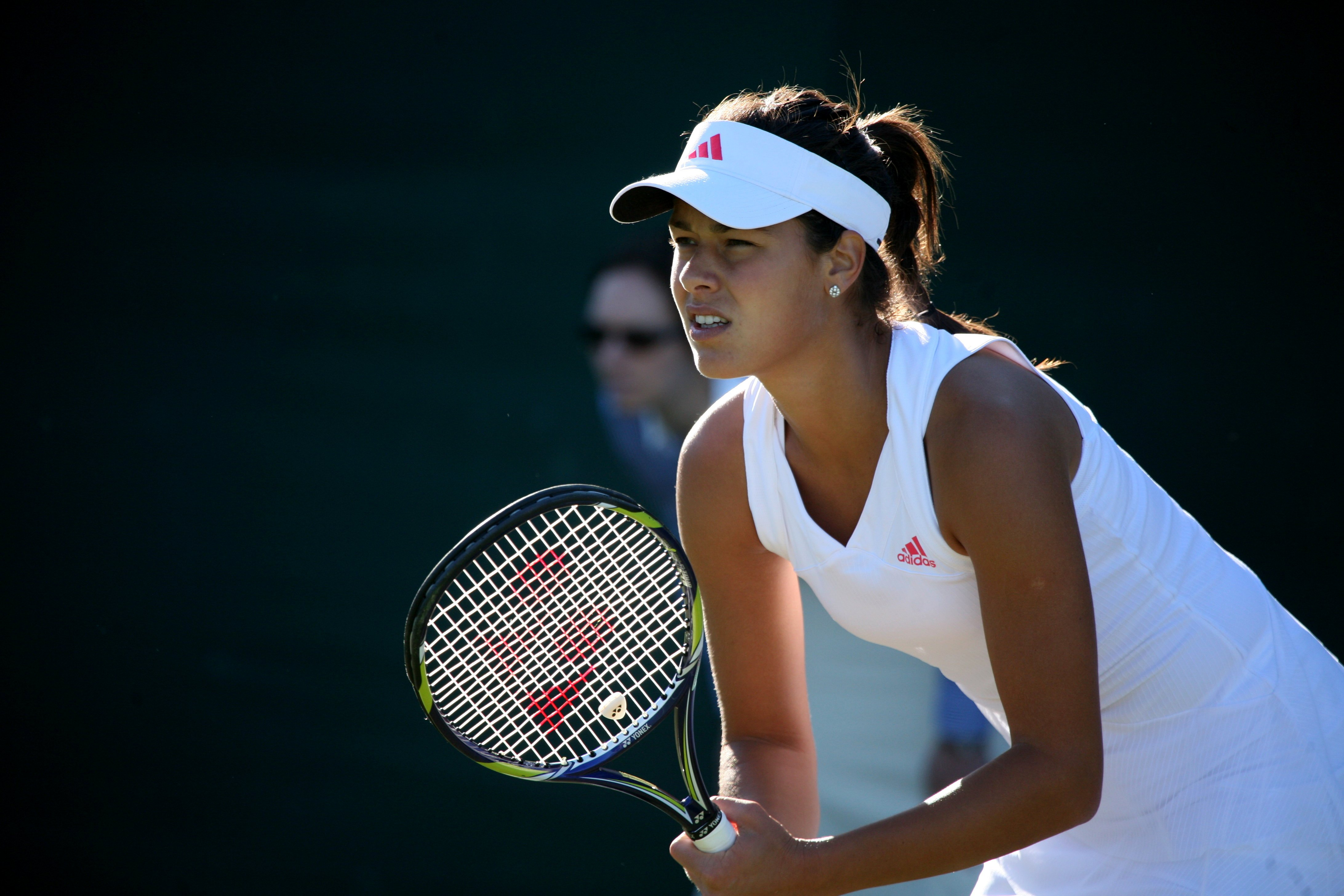 Ana Ivanović against Lucie Hradecká in the 2009 Wimbledon Championships first round